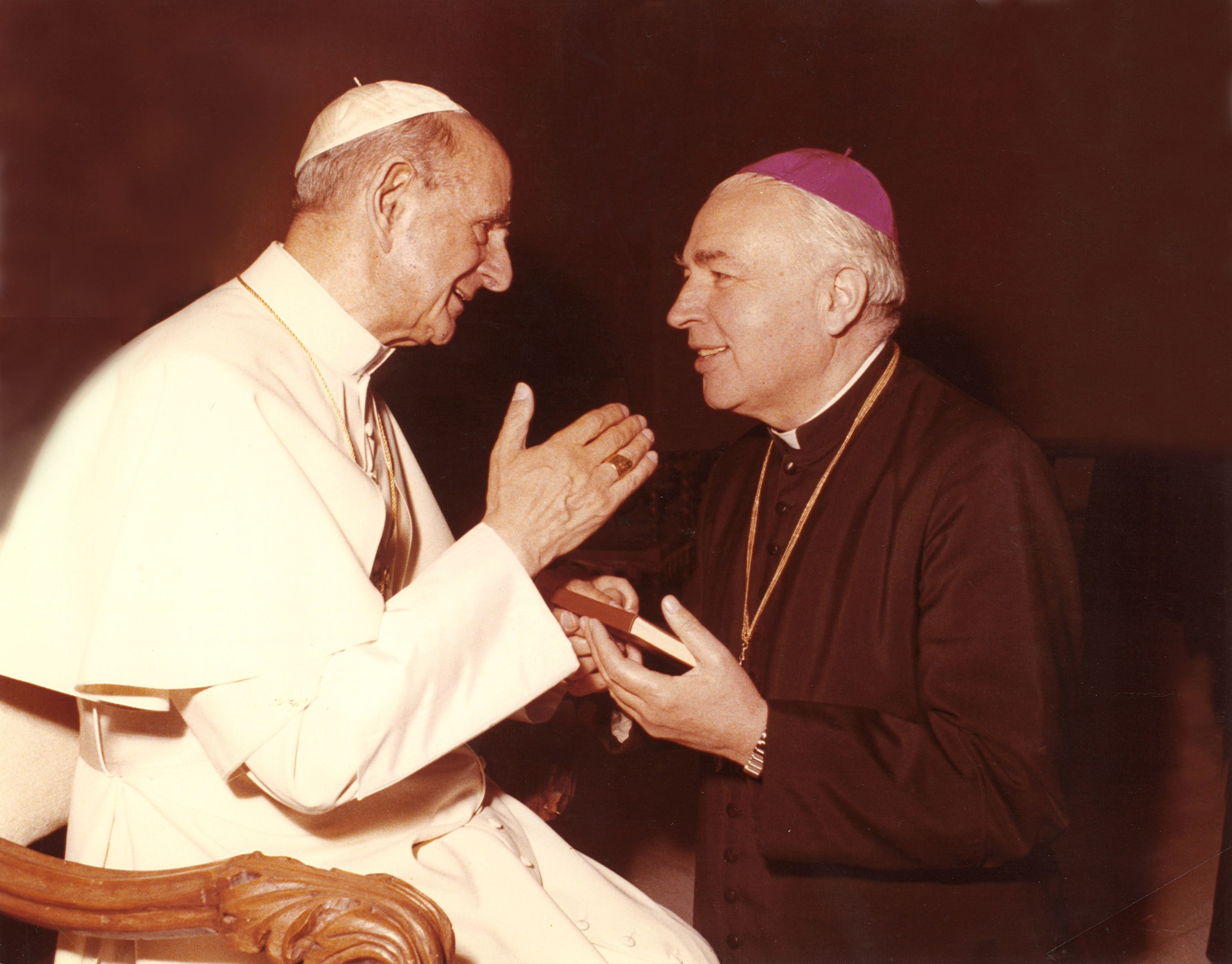 Frane Franić with pope Paul VI